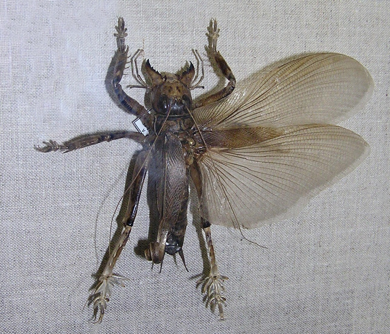 Splay-footed cricket, Schizodactylus monstrosus, in the Museum of Zoology, Saint Petersburg This photograph taken in Zoological Museum of the Zoological Institute of the Russian Academy of Sciences Note: It is only museum co-ordinates, instead of an area of live animals.